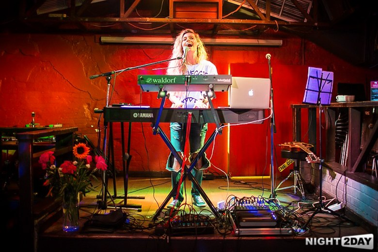 Варя Демидова